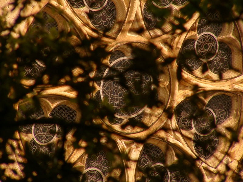 Picture of the rosace from the Collegiale St Martin in Montpezat de quercy France